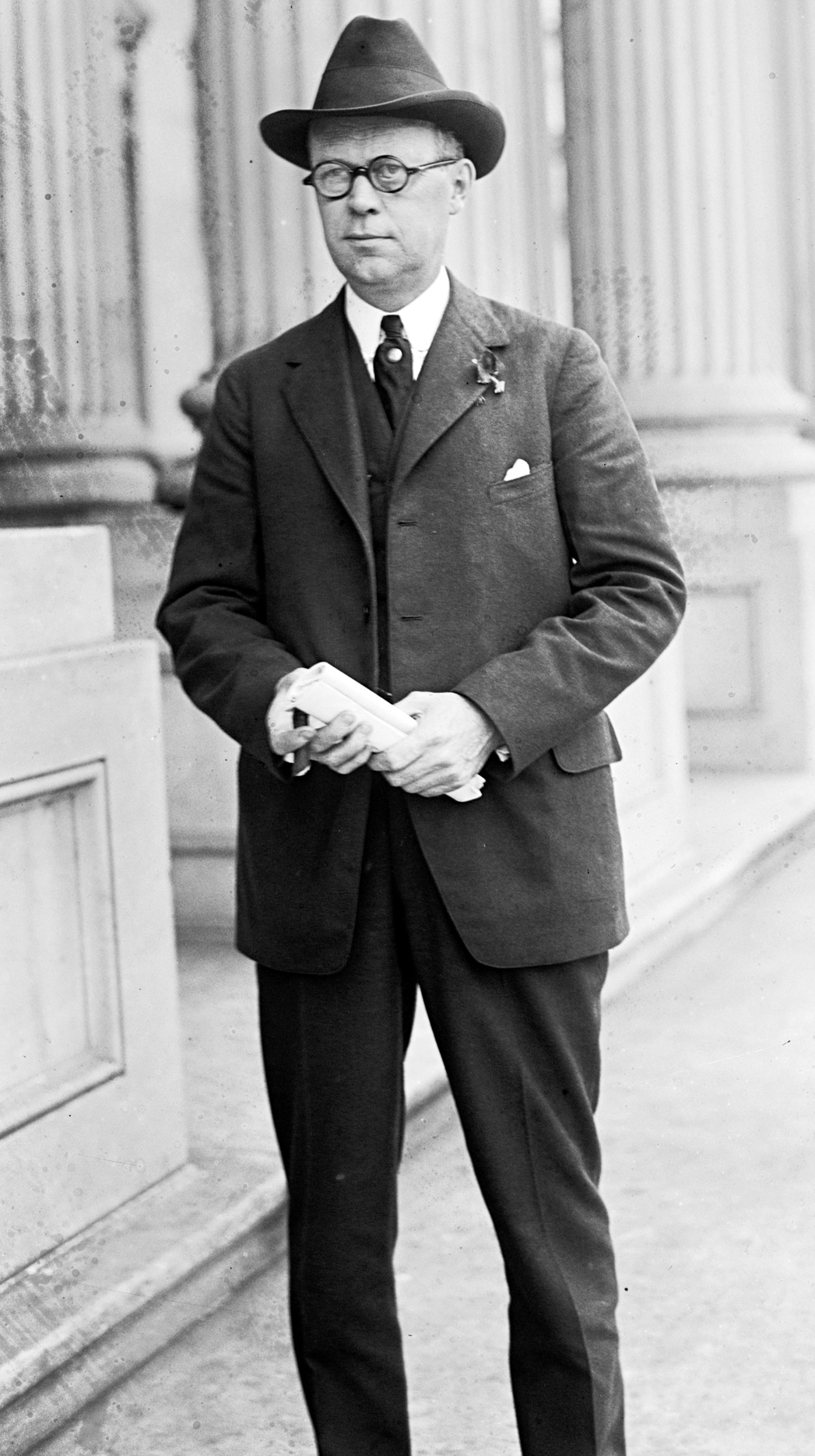 John E. Nelson, US Representative from Maine